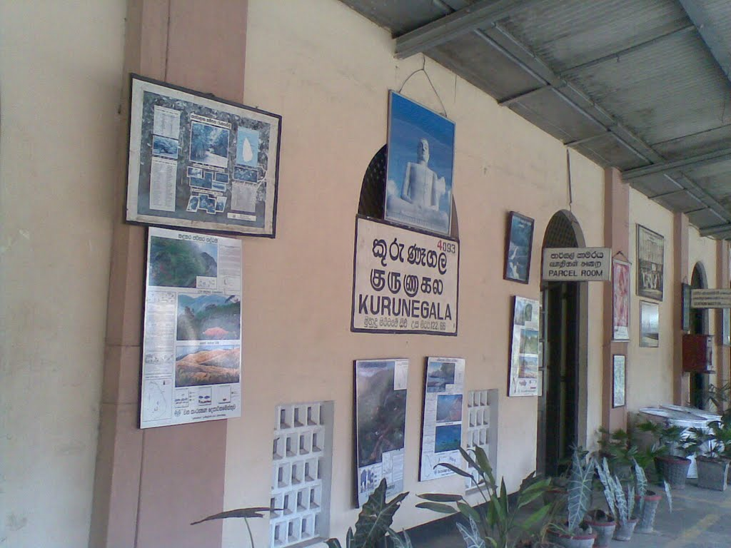 Kurunegala Railway Station